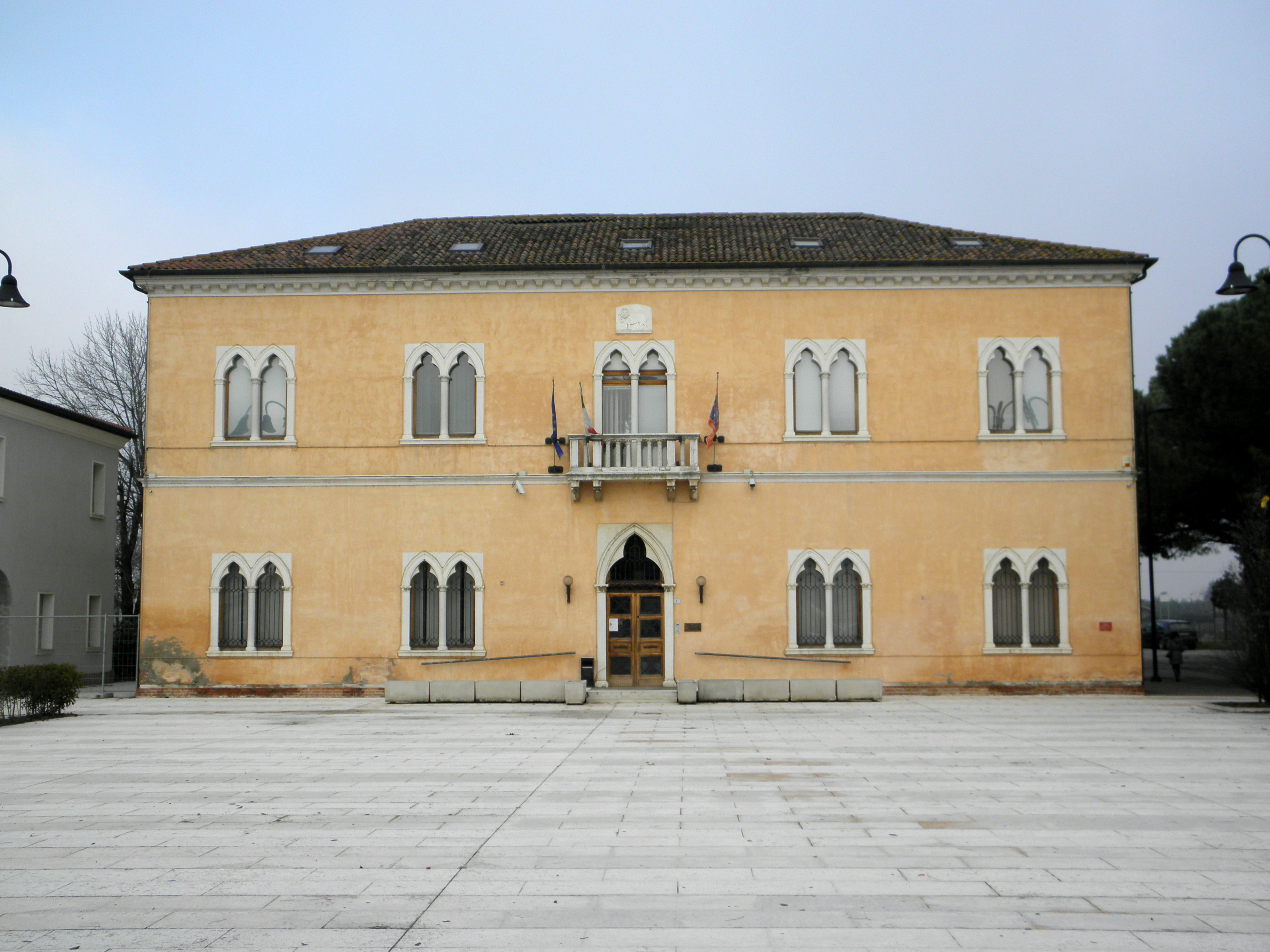 Ceregnano town hall, municipality in province of Rovigo.